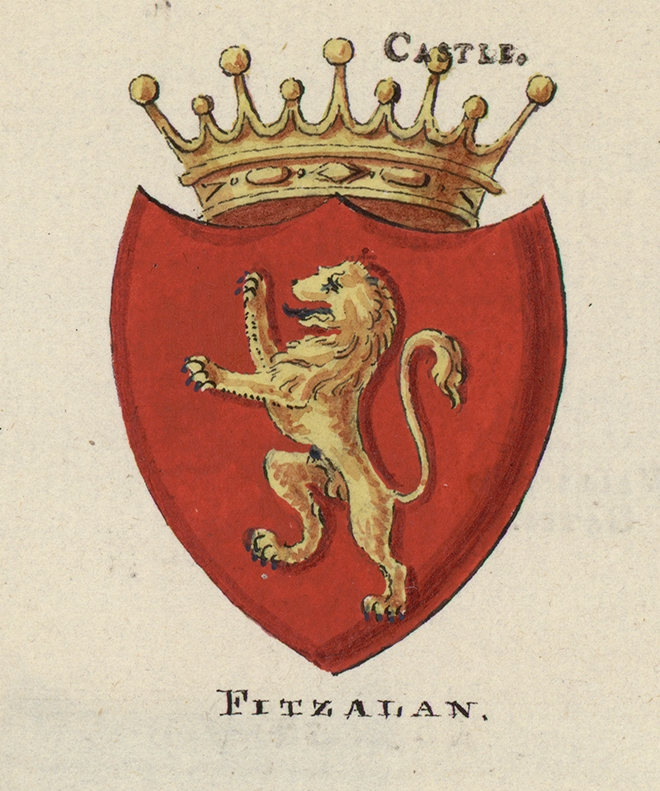 An image from a set of 8 extra-illustrated volumes of A tour in Wales by Thomas Pennant (1726-1798) that chronicle the three journeys he made through Wales between 1773 and 1776. These volumes are unique because they were compiled for Pennant's own library at Downing. This edition was produced in 1781. The volumes include a number of original drawings by Moses Griffiths, Ingleby and other well known artists of the period. Thomas Pennant (1726-1798)